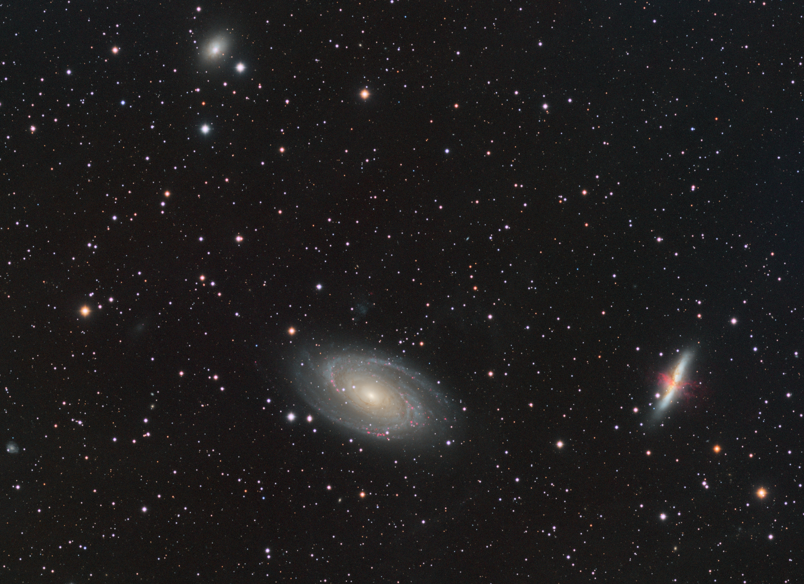 17 hrs RGB data and 15 hrs Ha data collected between Dec 2017 and Feb 2018. Processing done with AstroPixelProcessor and Pixinsight. Esprit100 refractor/ QHY16200 CCD (@-20C)